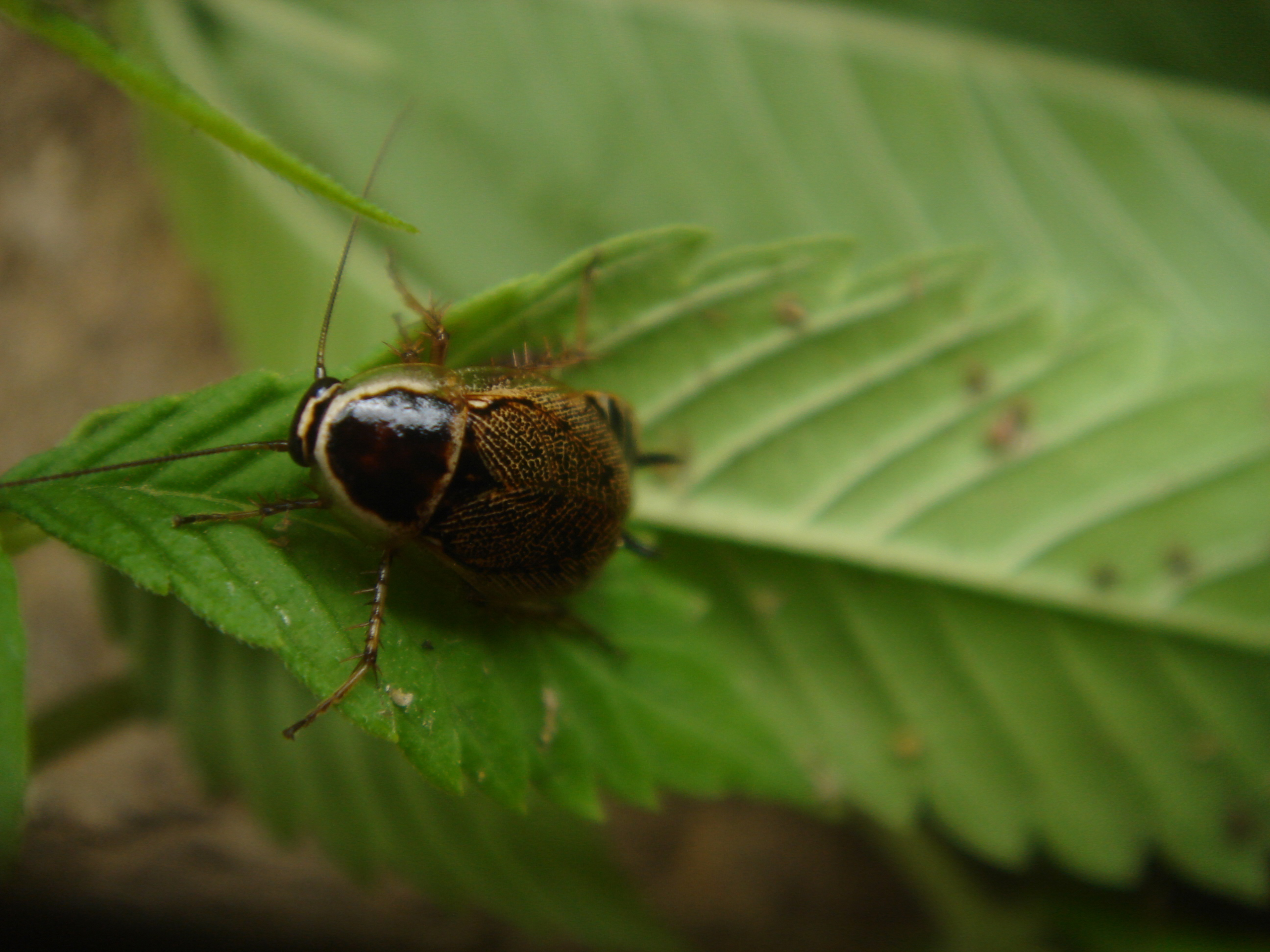 Forestscraper - Ectobious Sylvestris